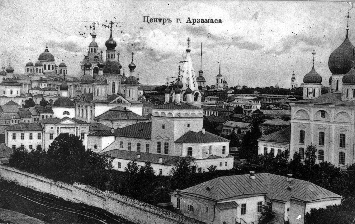 City-center of Arzamas